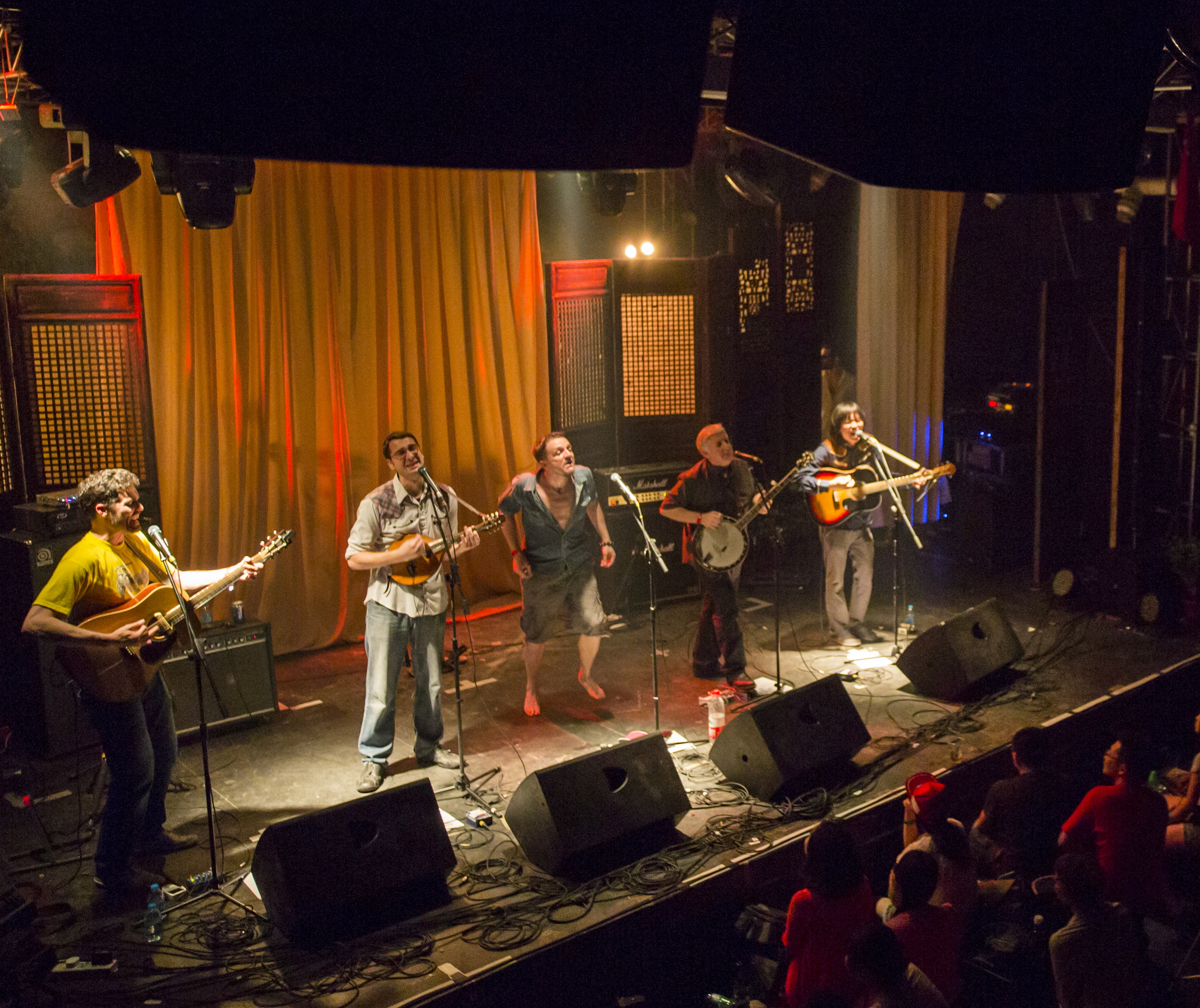 The Randy Abel Stable performing at the Hanggai Music Festival in Beijing, China 2013